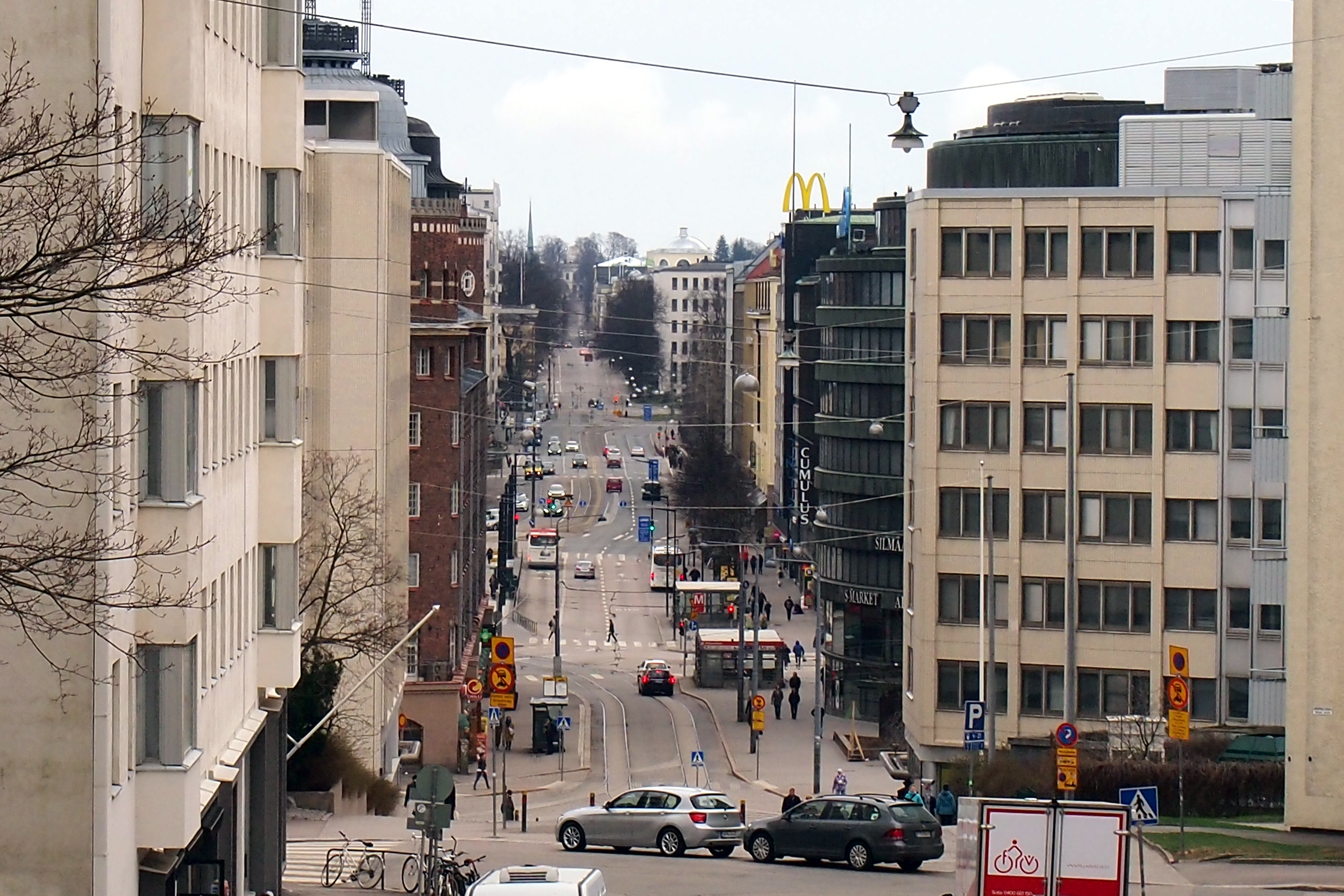 The historical street axis "Unioninakseli" in Helsinki, Finland. Southbound view. The axis is about 2½ kilometers long. It consists of two main streets, Unioninkatu and Siltasaarenkatu; the southernmost part of the axis is called Kopernikuksentie.